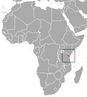 Usambara Shrew (Crocidura usambarae) range